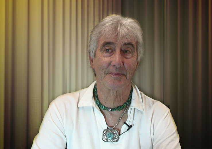 Photo of Jose Arguelles in Cancun, Mexico. Taken January 2010 on Sony HVR-A1.